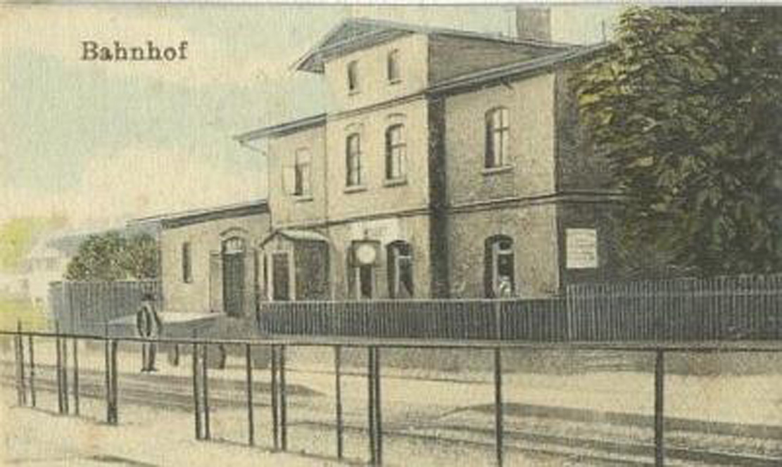 Bahnhof Topper